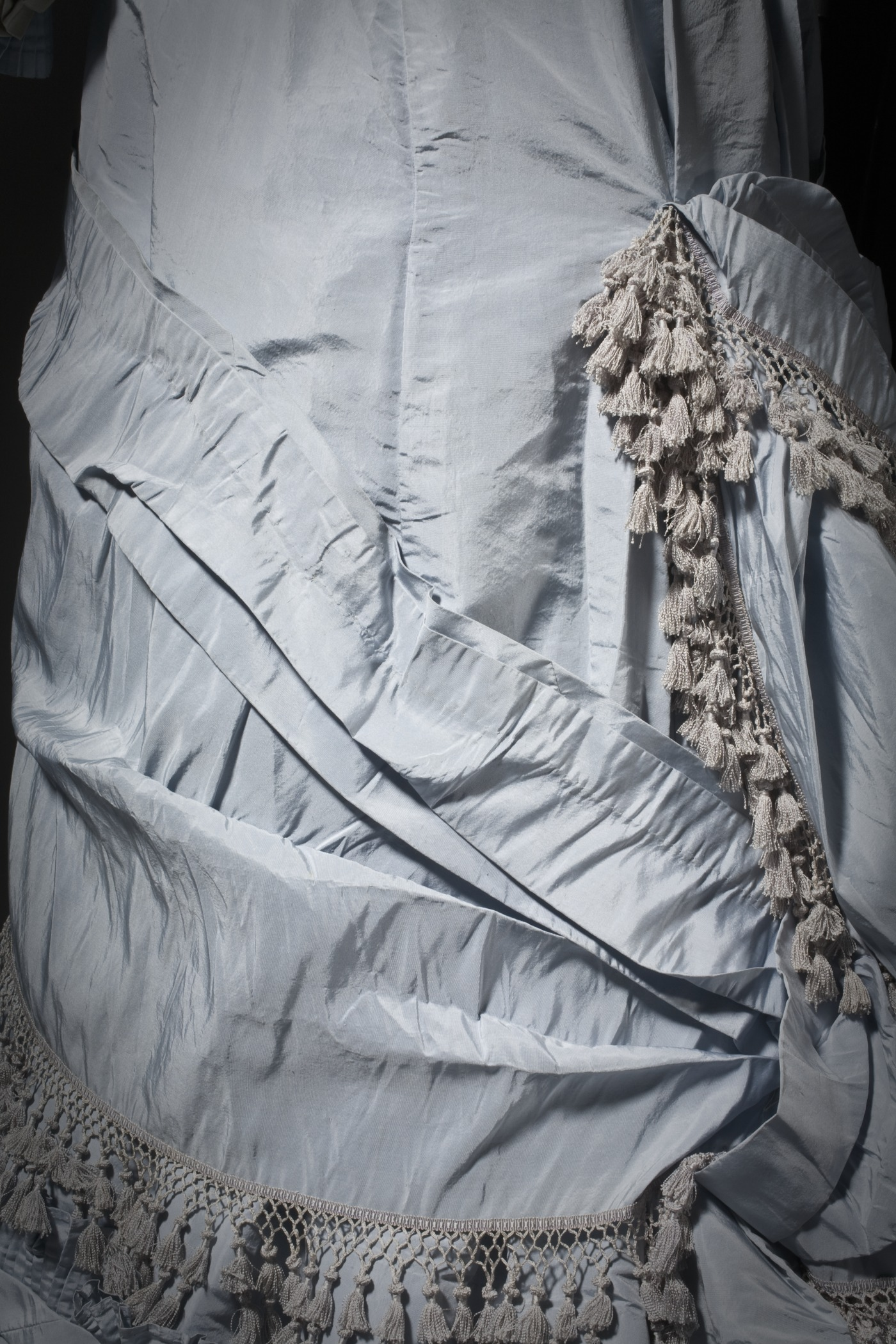 France, Limoges, circa 1880 Costumes; principal attire (entire body) Silk plain weave (taffeta) with silk ribbon and silk-knotted trim Center back length: 75 in. (190.5 cm) Purchased with funds provided by Suzanne A. Saperstein and Michael and Ellen Michelson, with additional funding from the Costume Council, the Edgerton Foundation, Gail and Gerald Oppenheimer, Maureen H. Shapiro, Grace Tsao, and Lenore and Richard Wayne (M.2007.211.35) Costume and Textiles